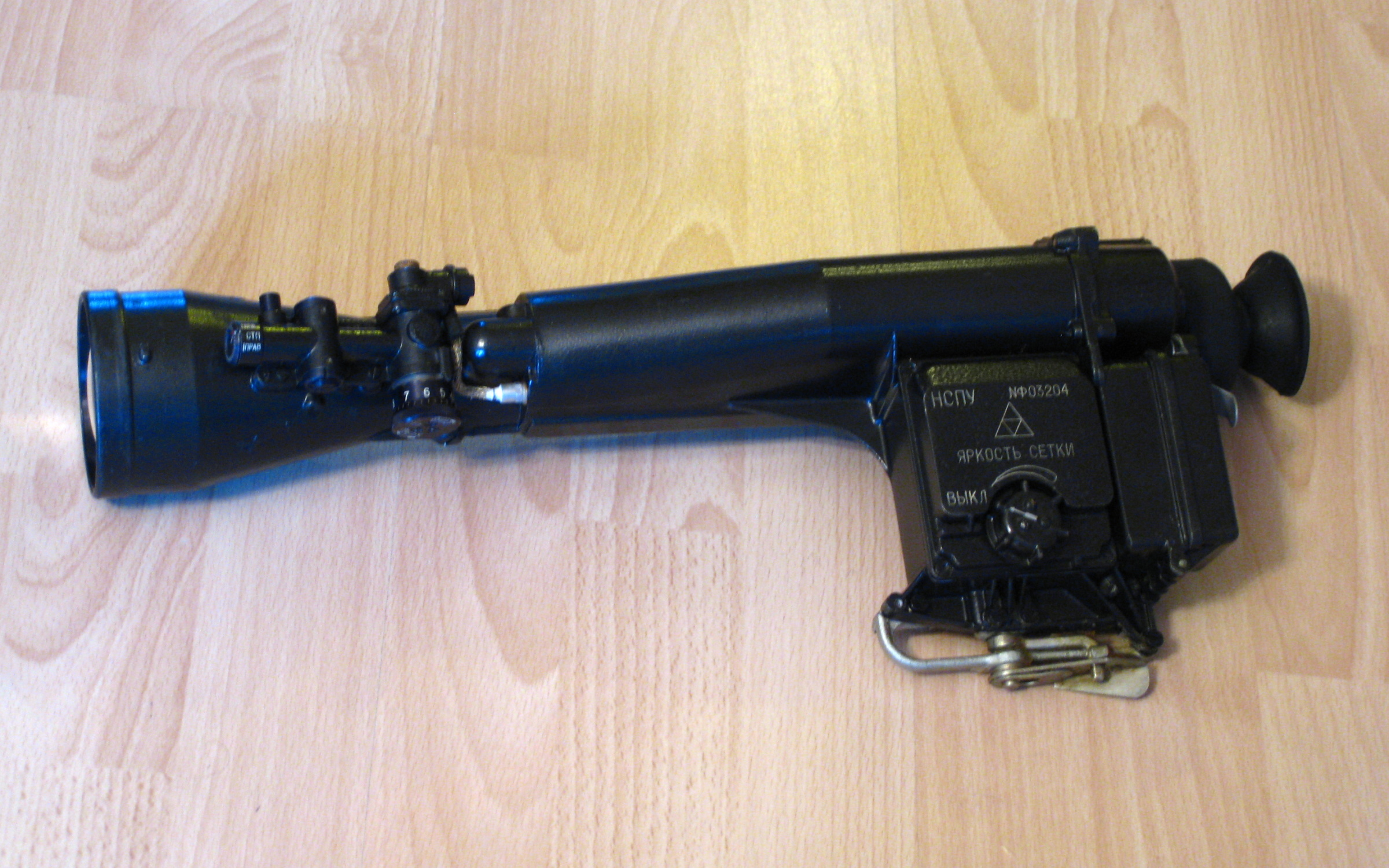 A soviet NSPU night vision scope (dayligt filter removed).